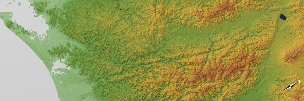 Japan Median Tectonic Line in Chubu region, Honshu, Japan.